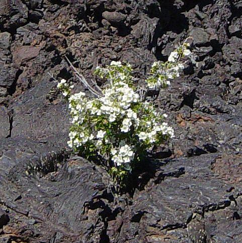 Craters of the Moon National Monument and Preserve - Syringa sp. in North Crater lava flow crack Image taken in July 2004 by Daniel Mayer. Captioned As {}